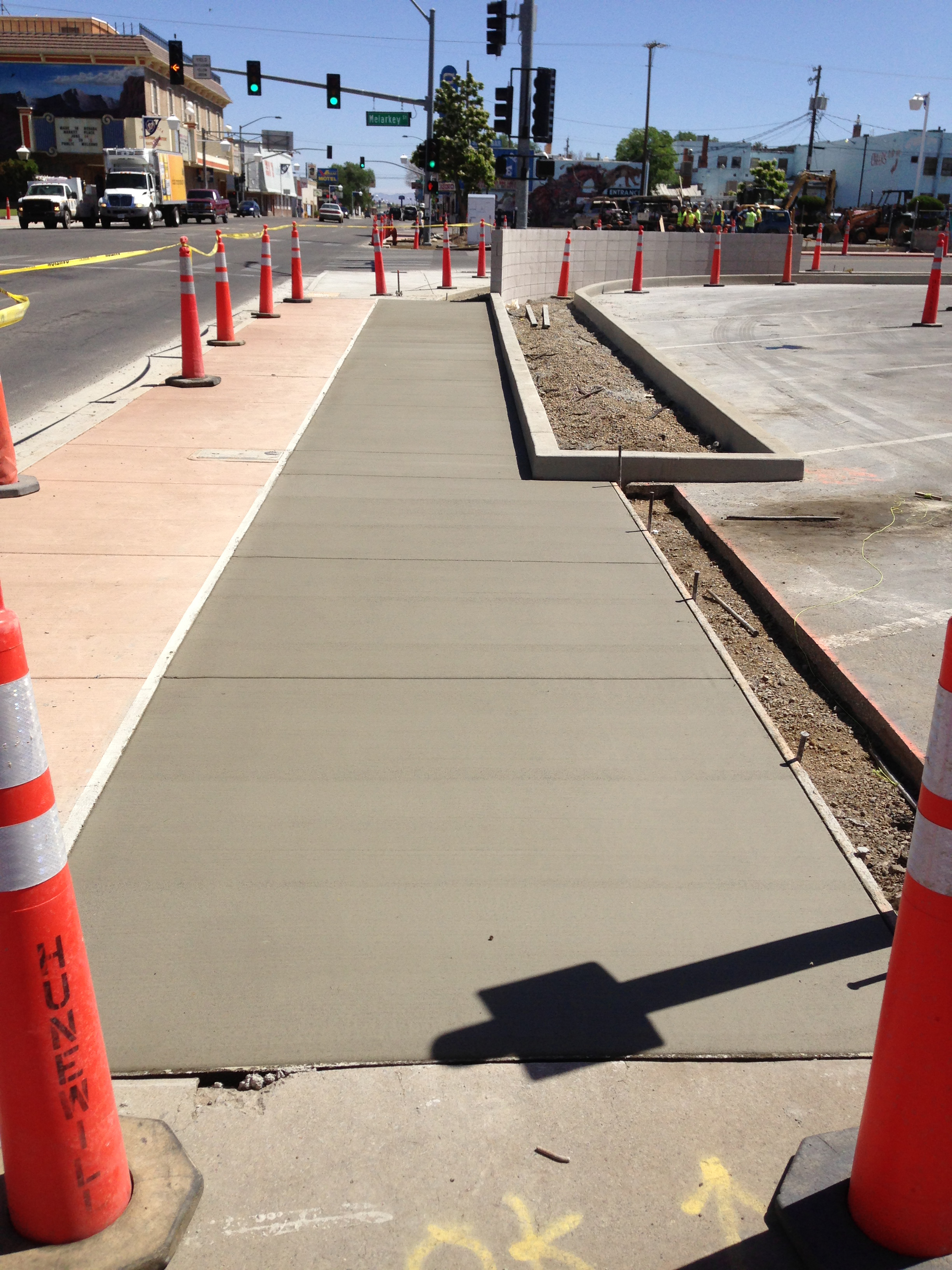 Fresh sidewalk along U.S. Route 95 (West Winnemucca Boulevard) near Melarkey Street and Nevada State Route 289 (Winnemucca Boulevard) in Winnemucca, Nevada